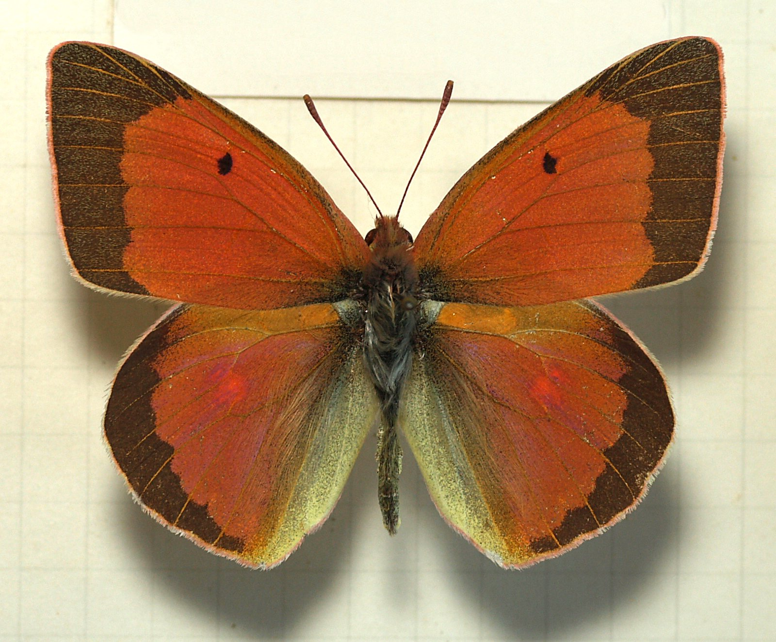 Colias libanotica heldreichi C. libanotica is sometimes included in C. aurorina (Dawn Clouded Yellow) Dysmorodrepanis (talk) 23:31, 8 August 2008 (UTC)